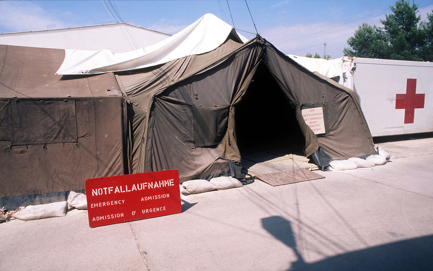 Shot of the entrance to the emergency room of the German-French Mash Unit at a temporary naval base located in Troger (Trogir), Croatia, during Operation JOINT ENDEAVOR.